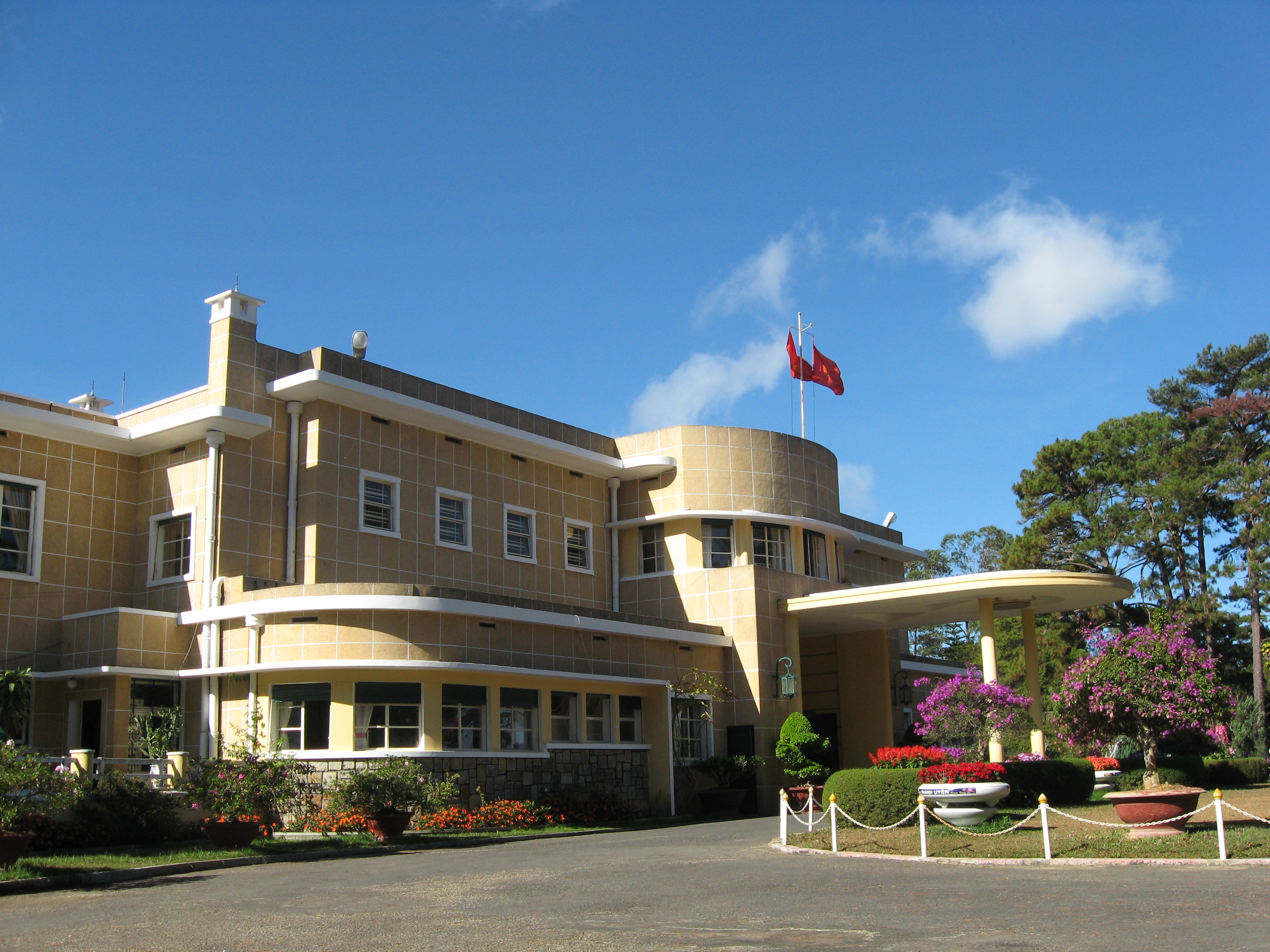 Bao Dai's Summer Palace